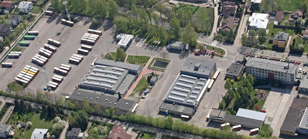 Bus depot in Bielsko-Biała, Poland.